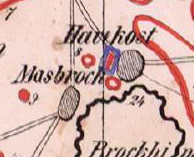 Megalithic tomb near Masbrock, Sprockhoff-No. 786